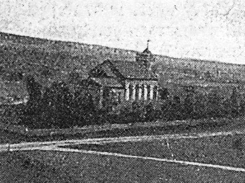 Catholic church of St. Louis in Śviaciłavičy